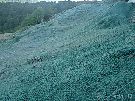 002-sochi-flexterra-ski-slopes